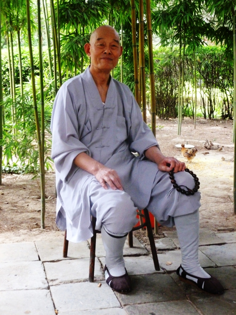 Photo of monk taken in garden of Wild Goose Pagoda in Xi'an, China